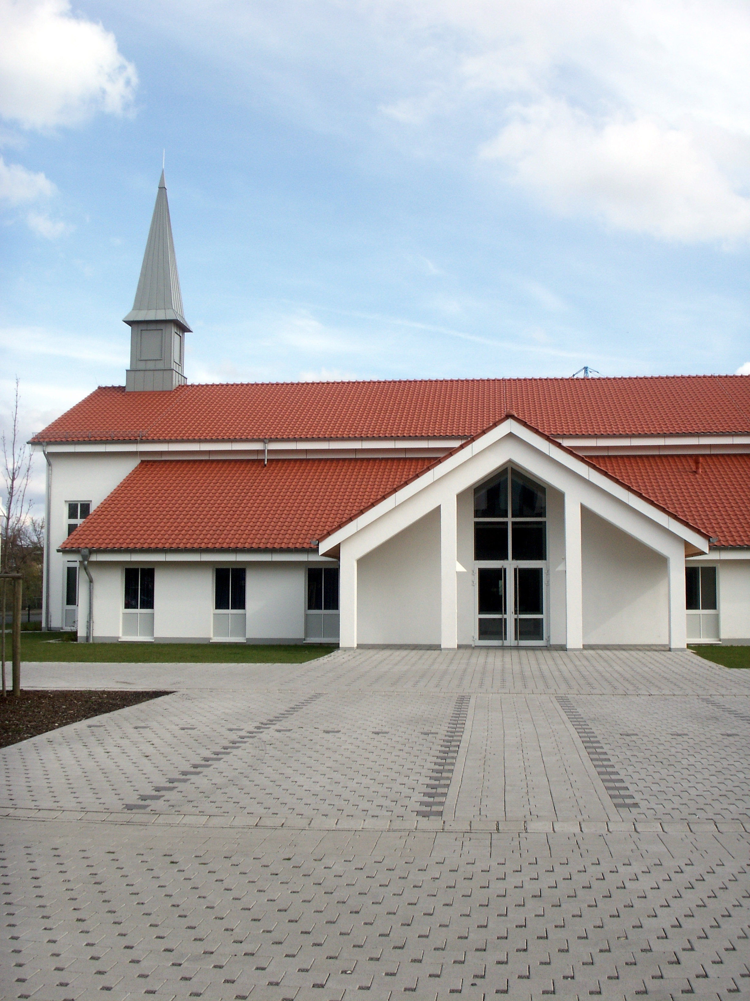 A meetinghouse of The Church of Jesus Christ of Latter-day Saints in Heidelberg-Wieblingen, Germany.